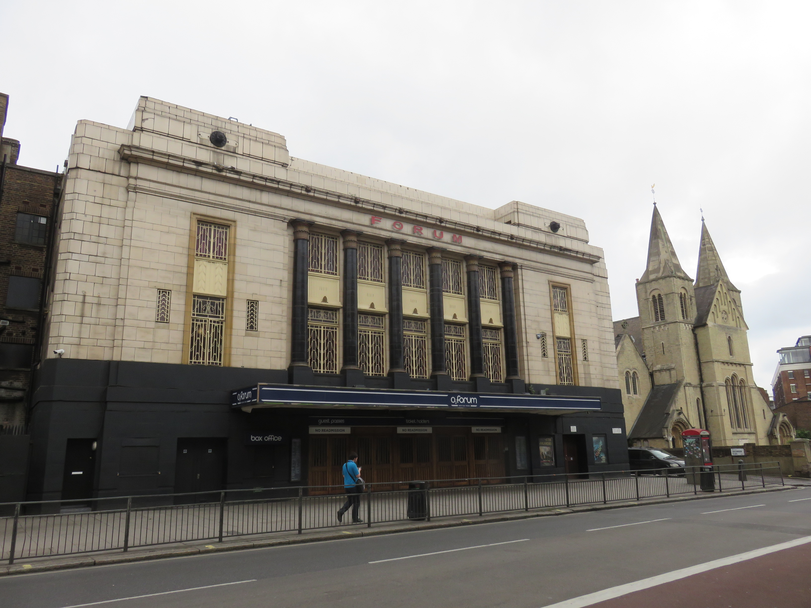 O2 Forum Kentish Town